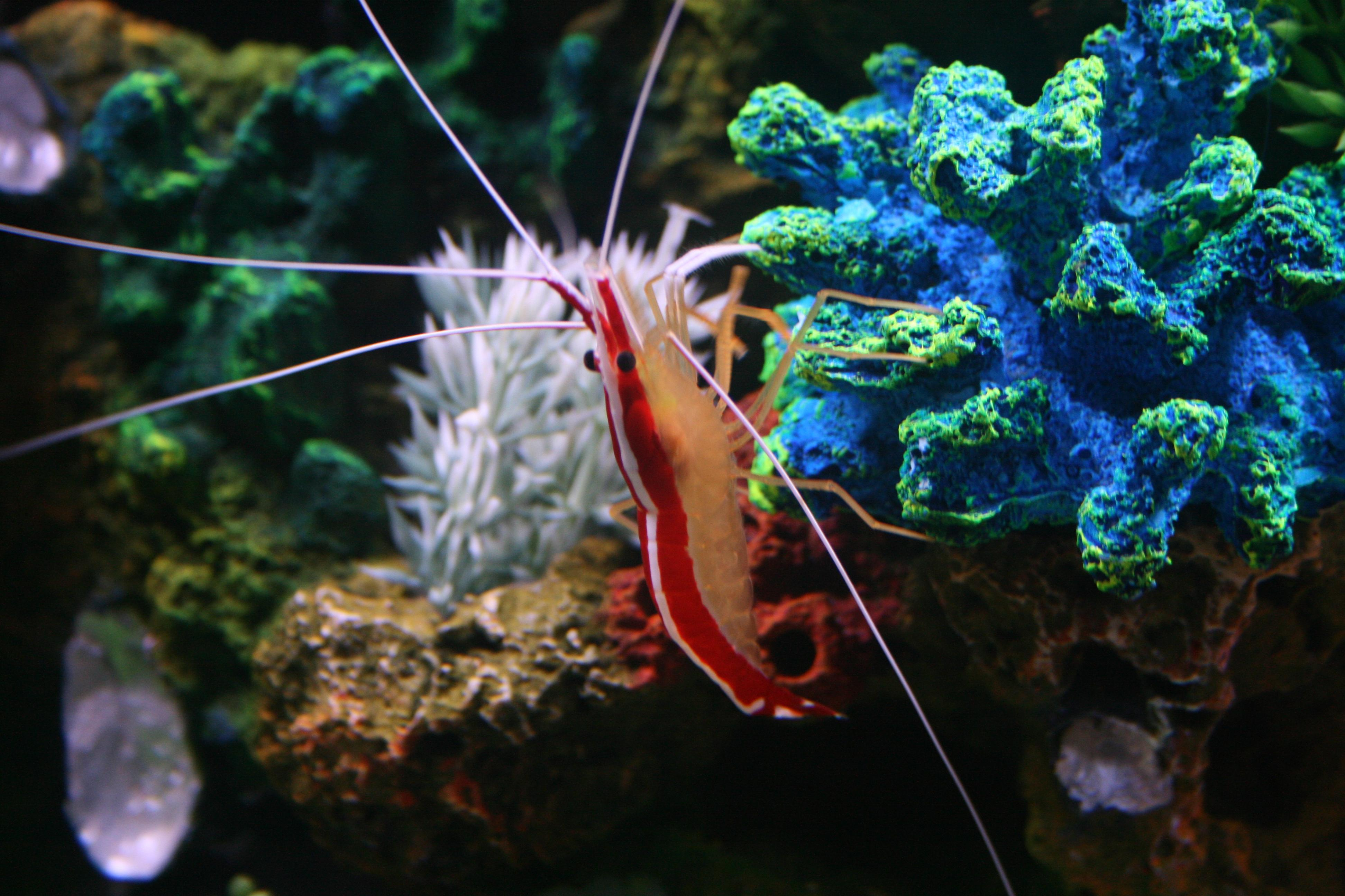 This photo shows a cleaner shrimp (Lysmata amboinensis) in my marine aquarium.